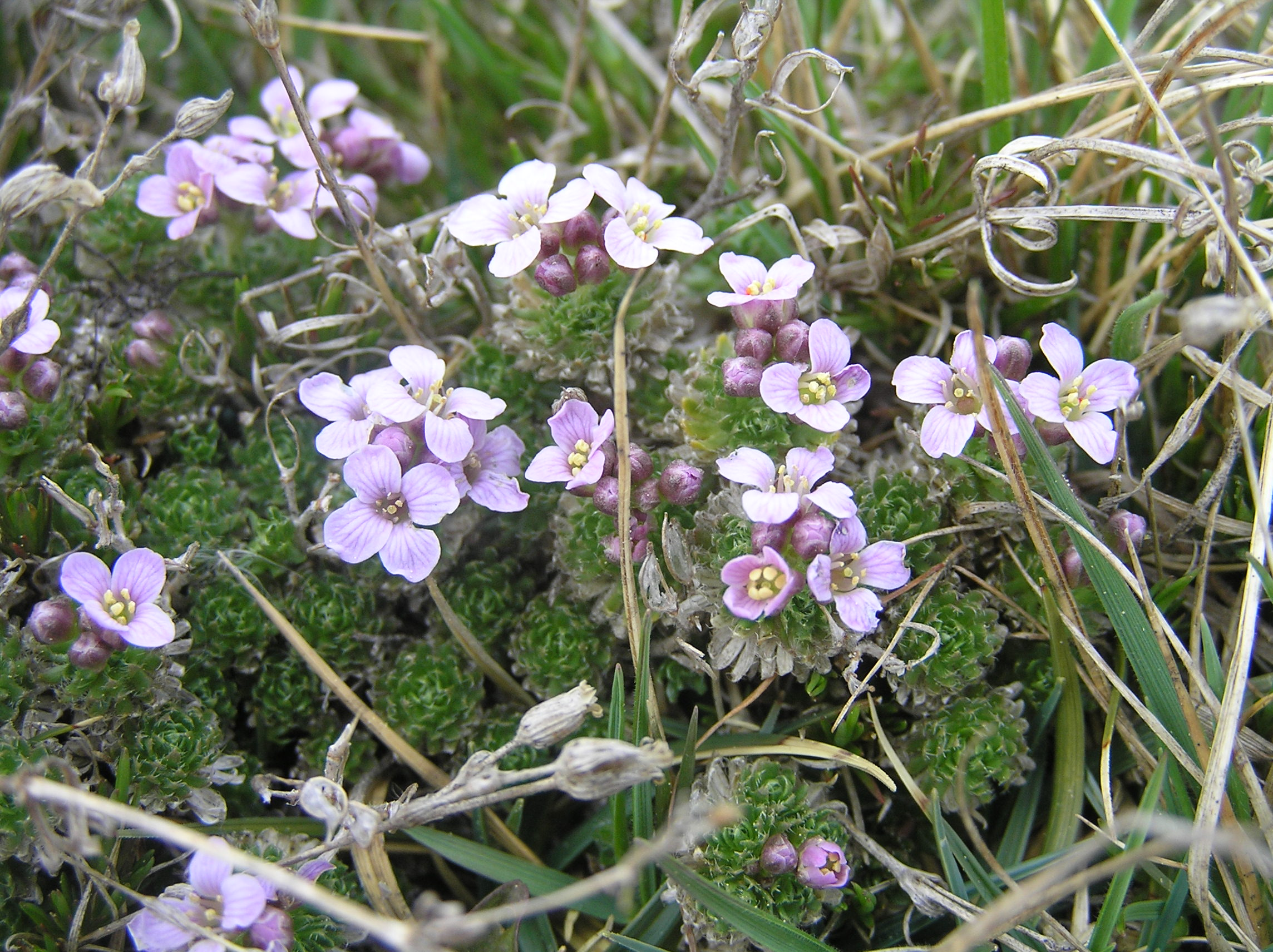 Petrocallis pyrenaica, Austria, Alps, the mountain Schneeberg near Wiener Neustadt